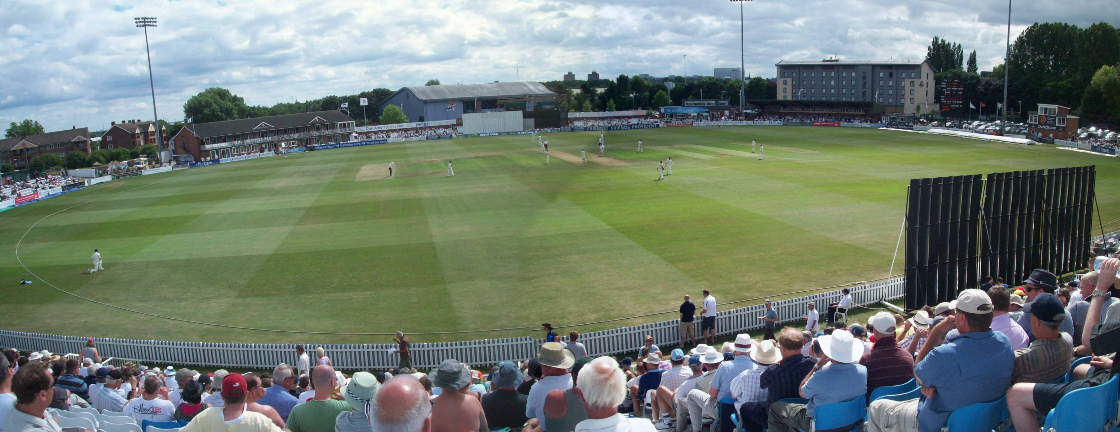 Photo taken by myself - 9th July 2010